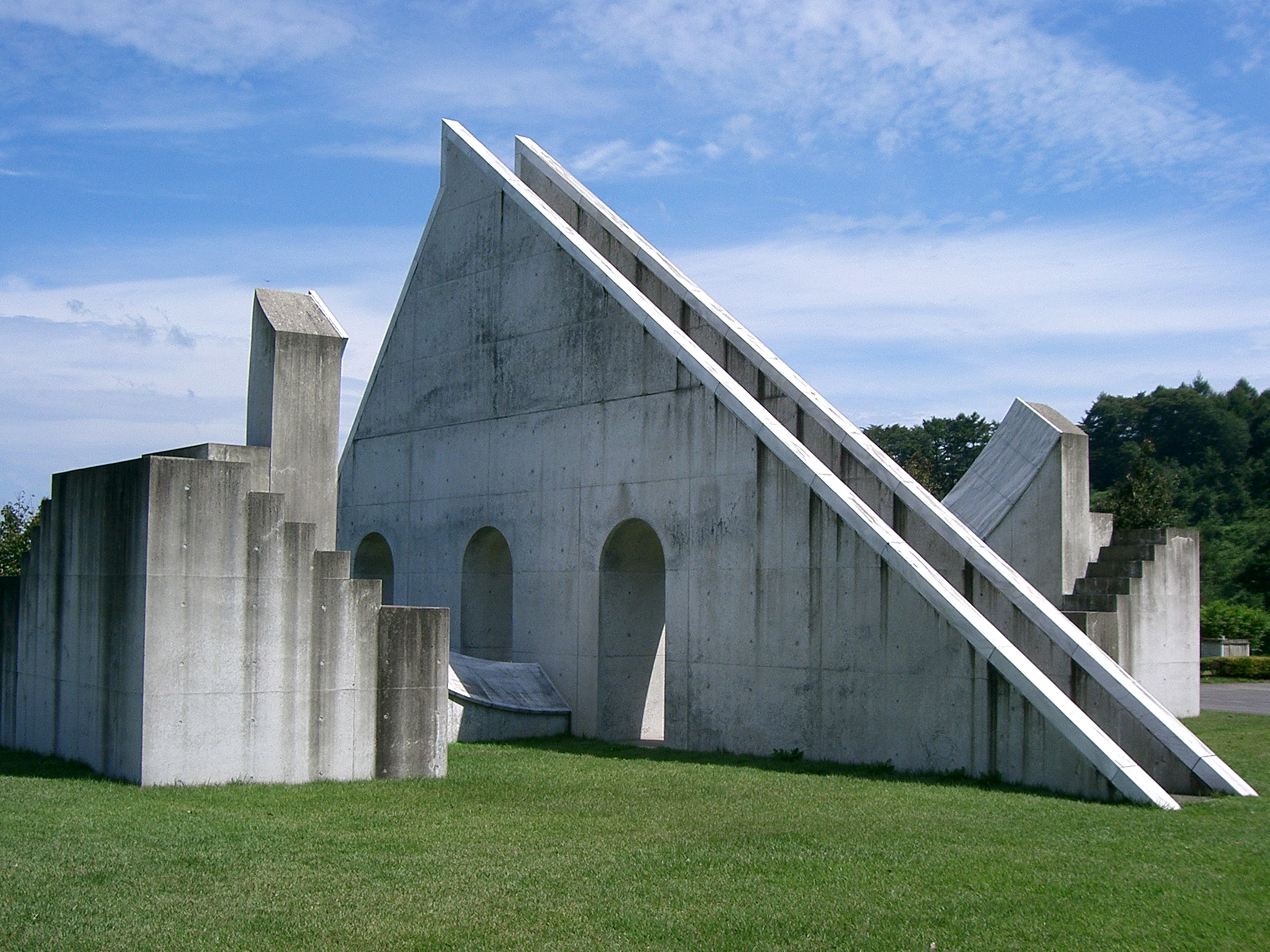 Samrat Yantra, the sundial of Jantar Mantar, reproducted by Gunma Astronomical Observatory (GAO)